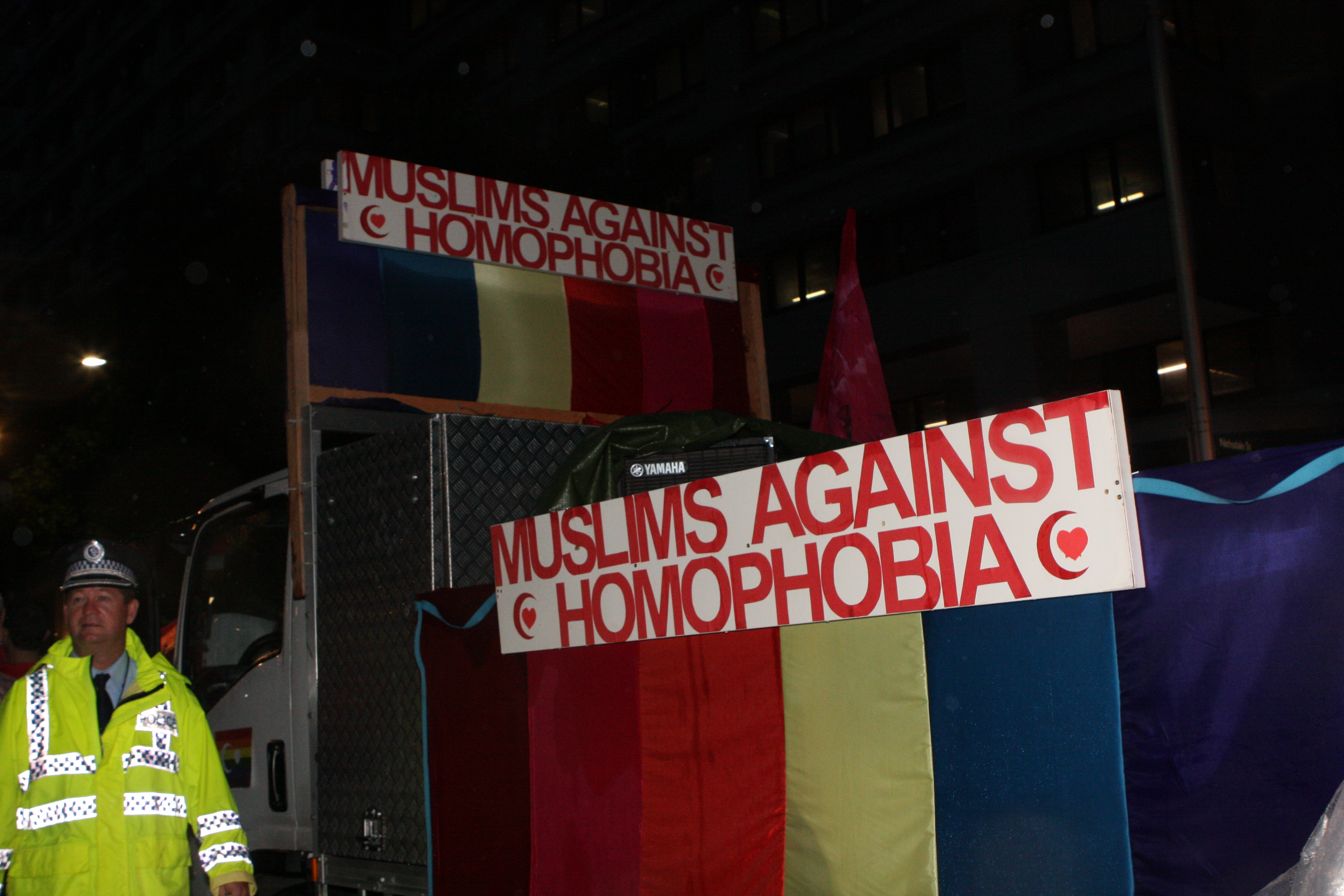 2012 Sydney Gay and Lesbian Mardi Gras